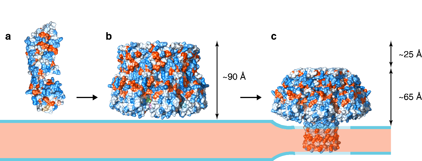 Lysnein molecular mechanism of pore formation.Molecular graphics were performed with the UCSF Chimera package.(Pettersen et al., 2004).